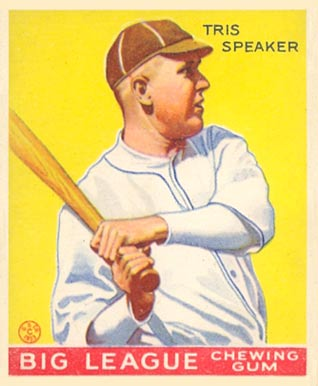 1933 Goudey baseball card of Tris Speaker of the Cleveland Indians #89. PD-not-renewed.